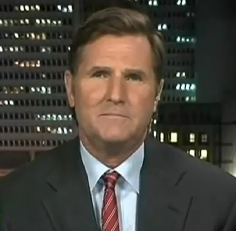 Mike Papantonio, Attorney/Host-Ring of Fire Radio, joins Thom Hartmann. The jury in the John Edwards case has now deliberated for three days without reaching a verdict - and if convicted - Edwards could face 30 years in jail. Meanwhile - Republicans that get caught up in sex scandals get off scott free - and are applauded by their colleagues. So what's really going on here?